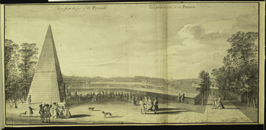 A General Plan and Prospective of Lord Viscount Cobham's Gardens at Stowe (ca. 1739)